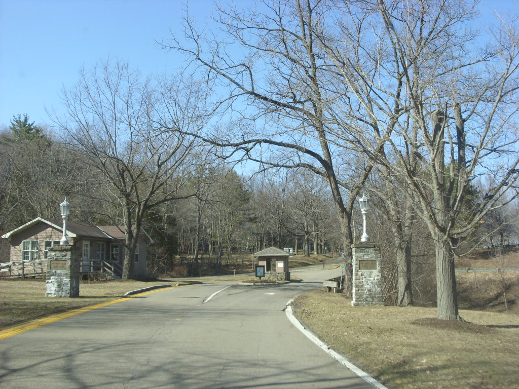 The northern terminus of New York State Route 419 at Watkins Glen State Park. The final reference marker is behind the right-hand statue.